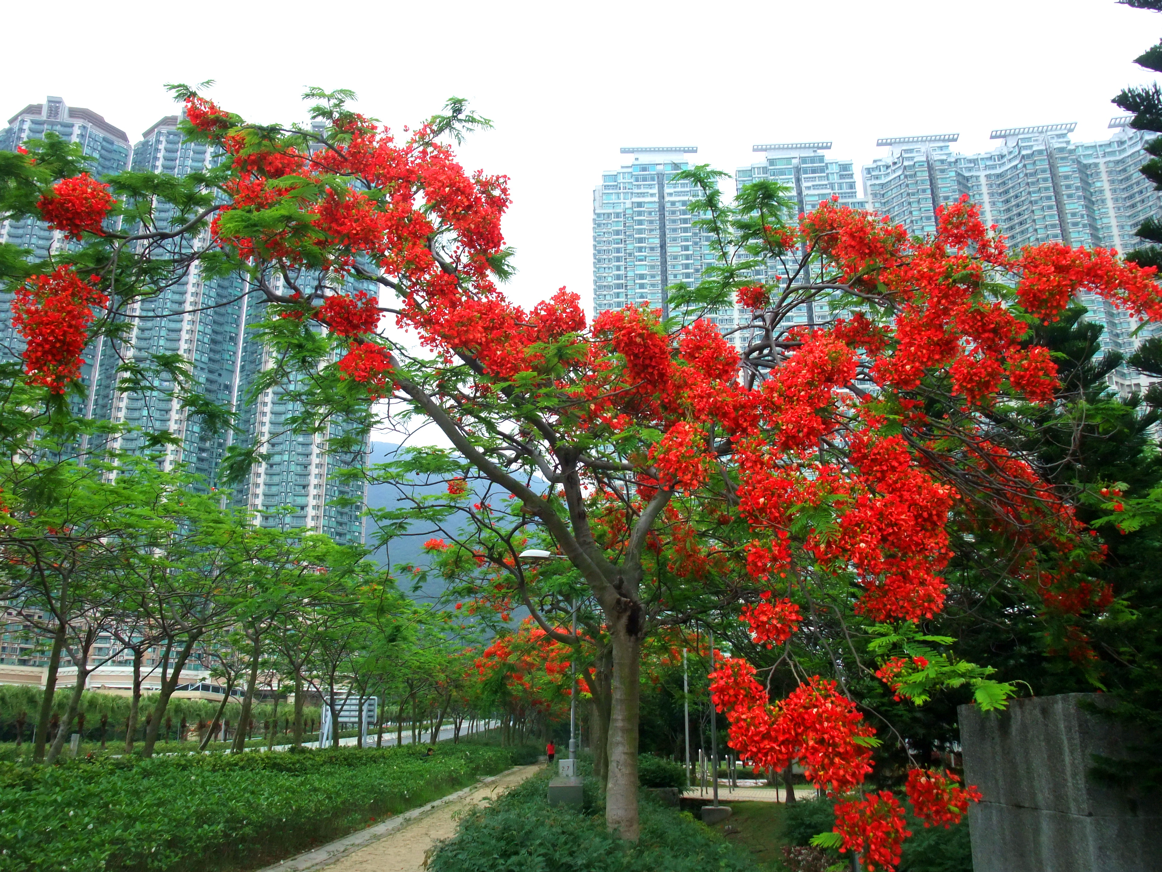 A Royal Poinciana (Delonix regia) in full bloom in Hong Kong.